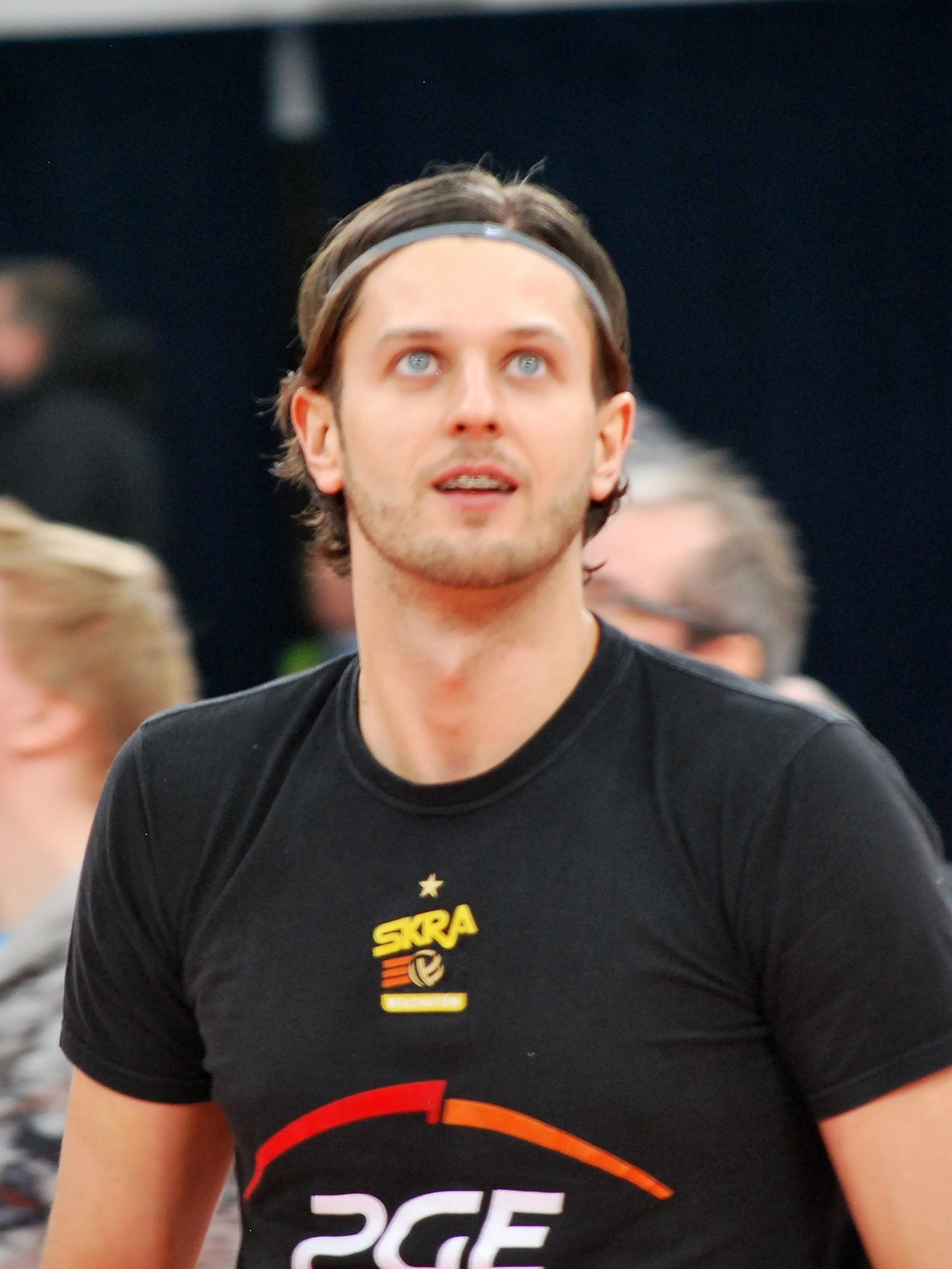 Michał Winiarski, volleyball player from Poland